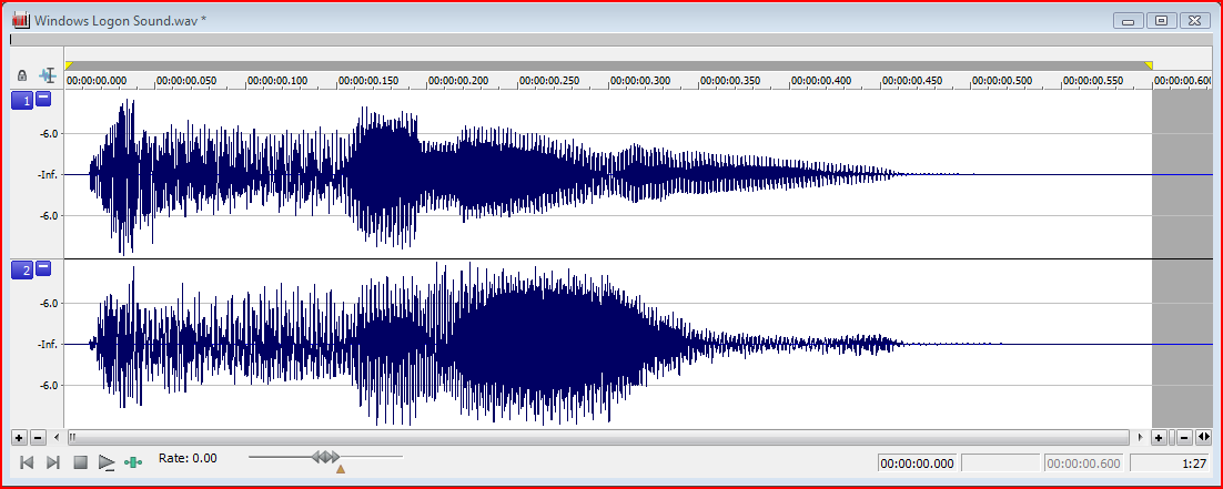 Waveform of an audio clip in Sony Sound Forge 9.0, stretched down to 50 % using time stretching.